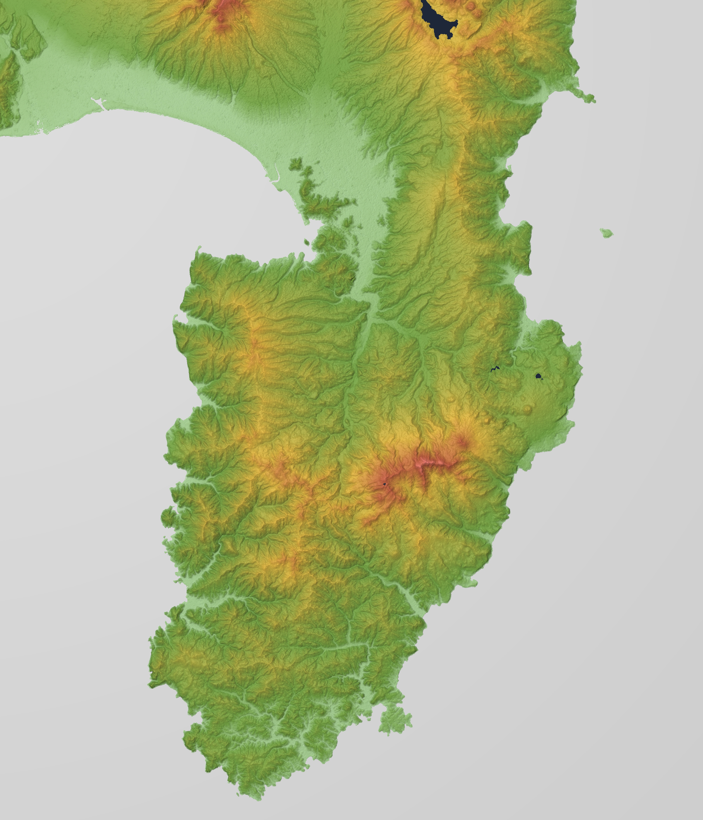 Izu Peninsula in Shizuoka Prefecture, Japan. This file updated by 30m Mesh.